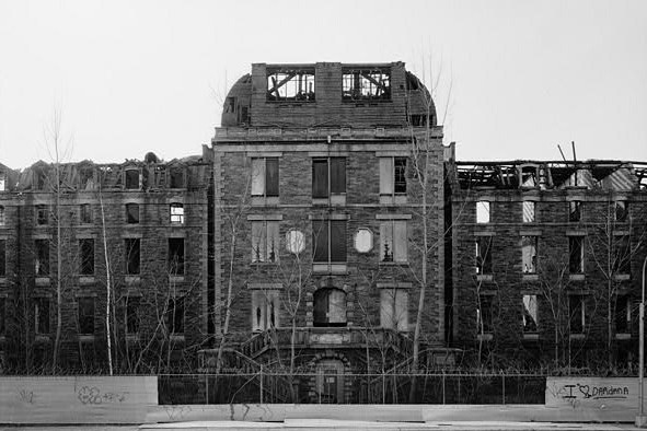 Island Hospital, Roosevelt Island, New York (New York County, New York) Object location40° 45′ 11″ N, 73° 57′ 31″ W